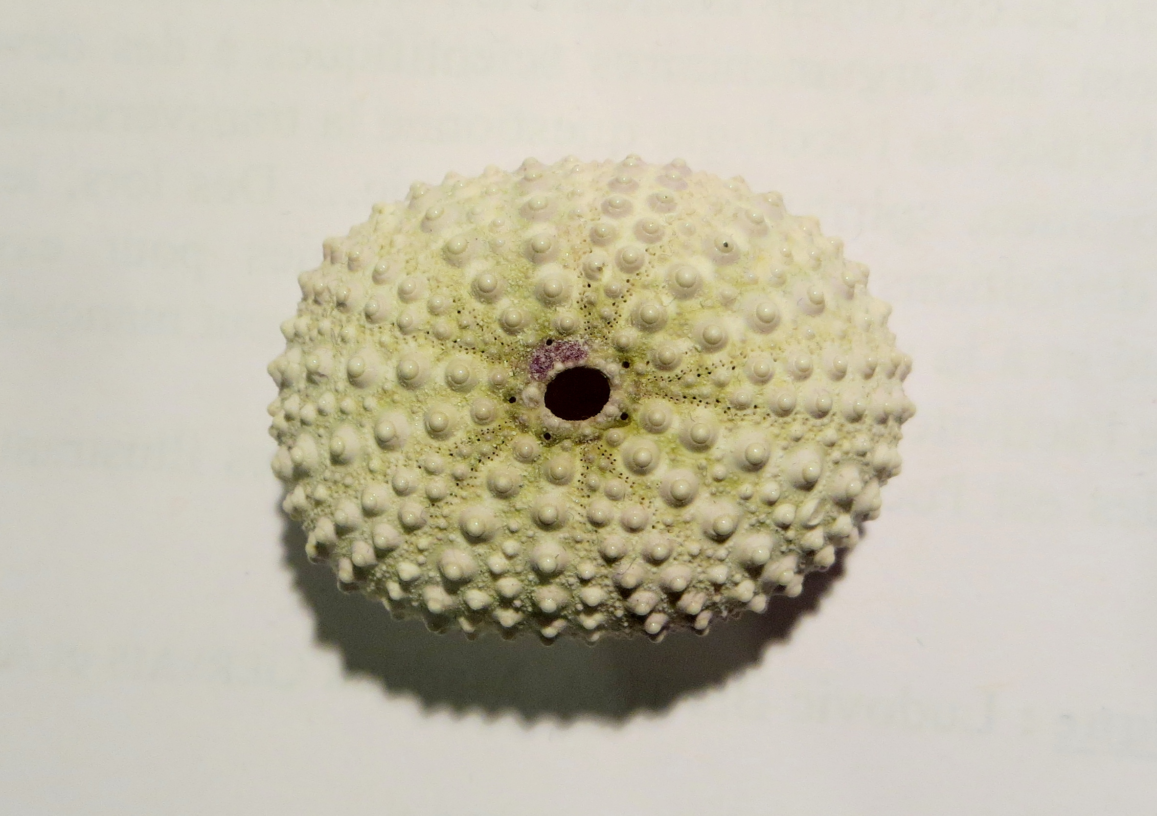 Test ("shell") of a sea urchin, Echinometra mathaei, from Maldives (Ari atoll).